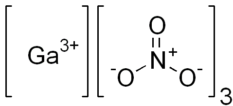 chemical structure of gallium nitrate